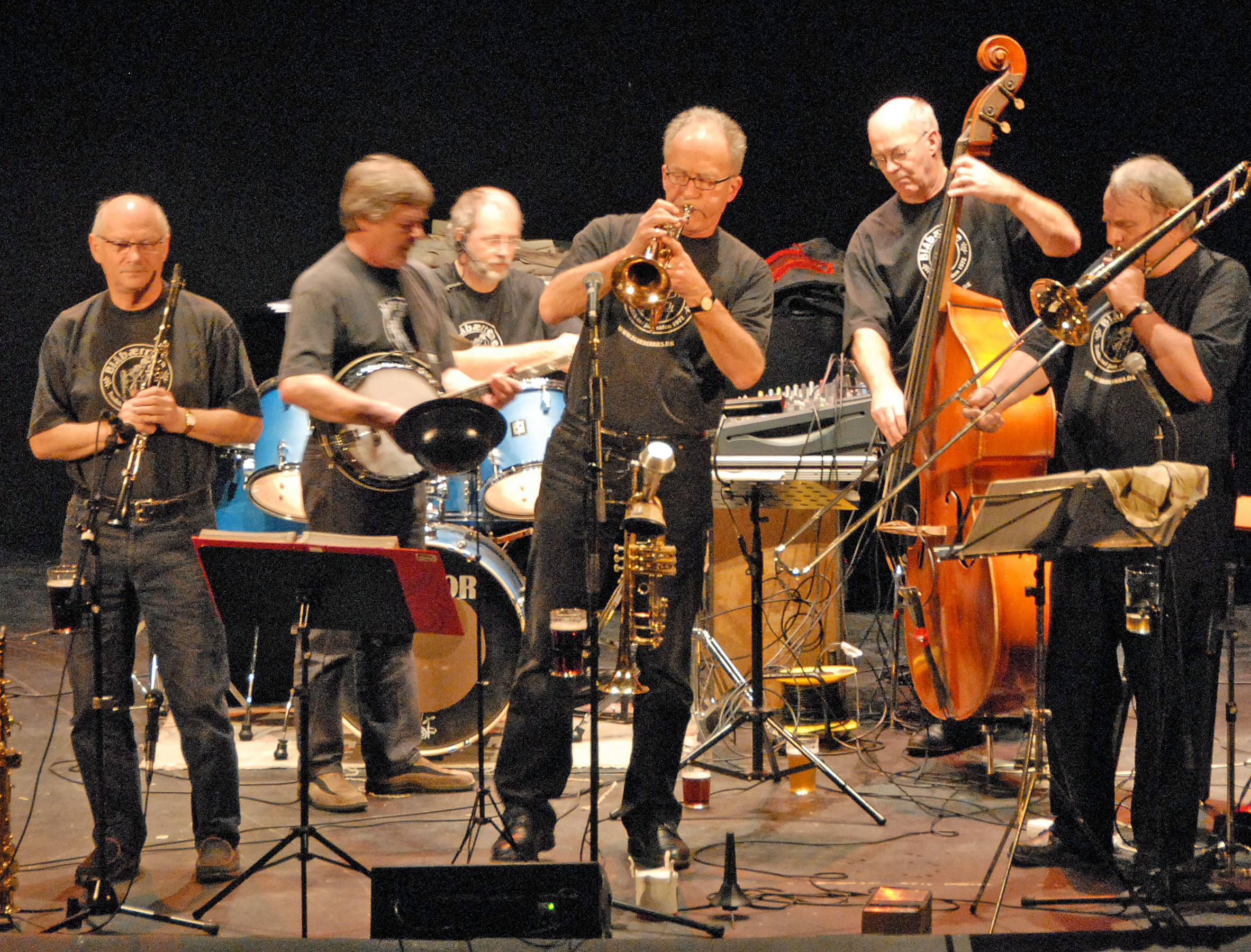 "the Blueberries" on stage